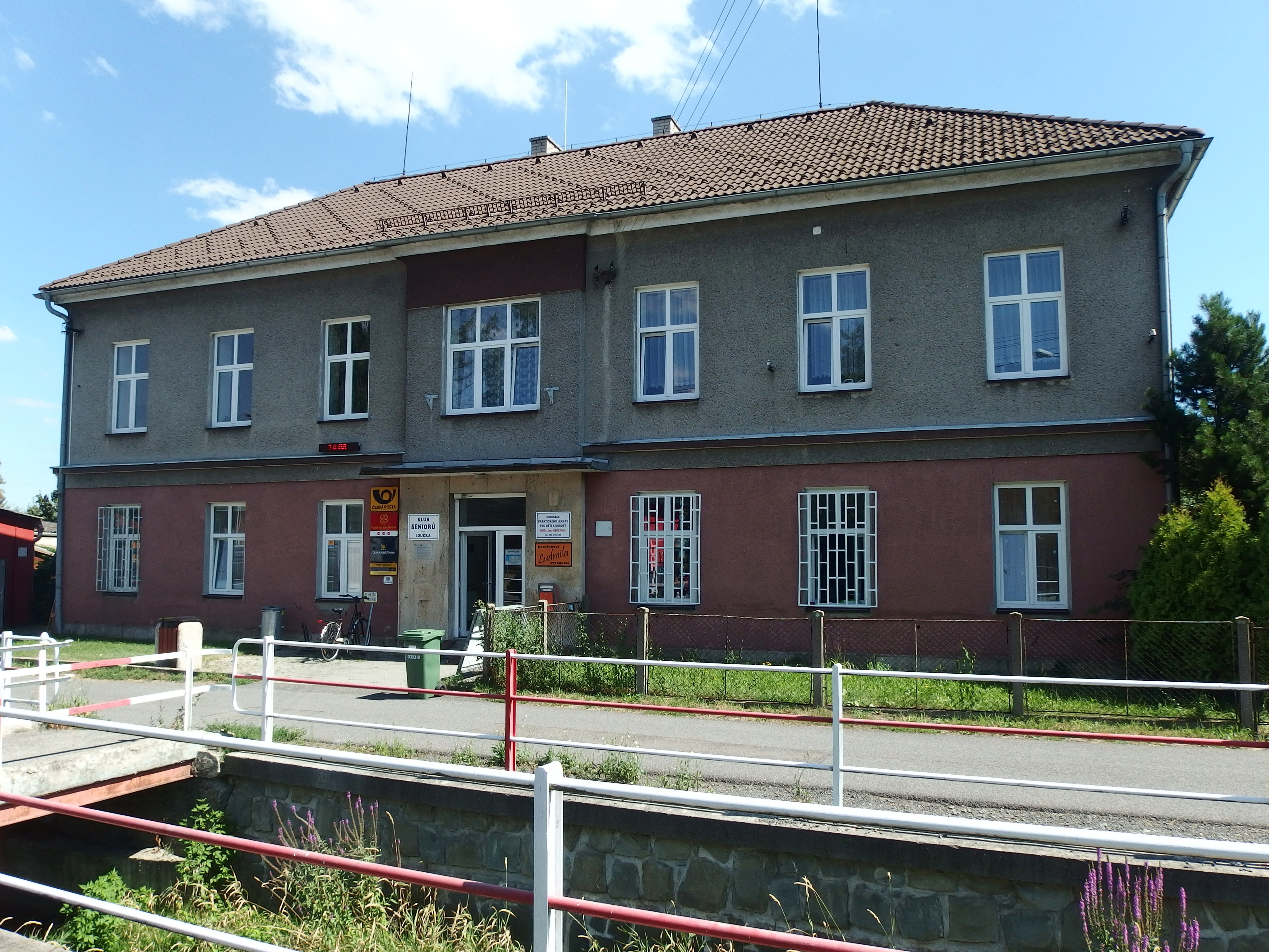 Nový Jičín, Czech Republic, part Loučka.